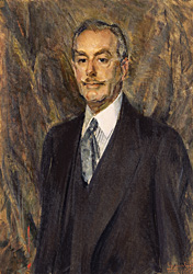 Dean Acheson, Statesman by Gardner Cox